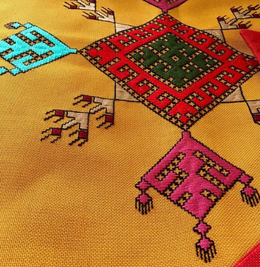 balochi doozi